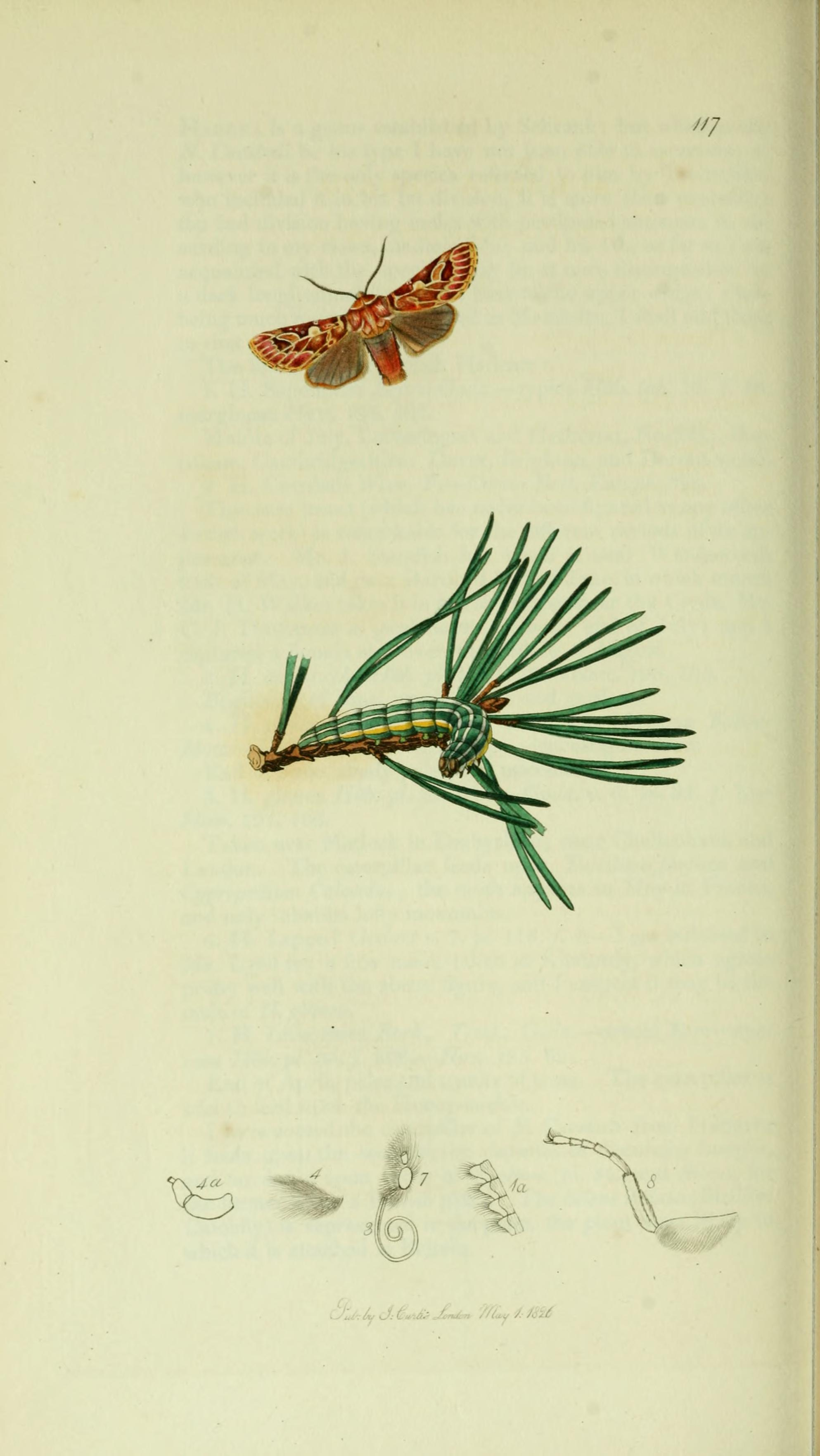 An illustration from British Entomology by John Curtis. Achatea spreta or Panolis flammea (Pine-destroying Noctua, Pine Beauty).